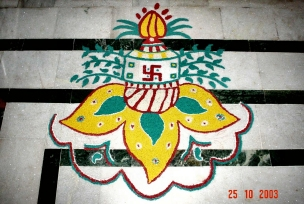 Figurative rangoli designed on Divali, 1003. Pictures a jar with a svastika on it, a coconut on top, leaves coming out, and placed on a flower.